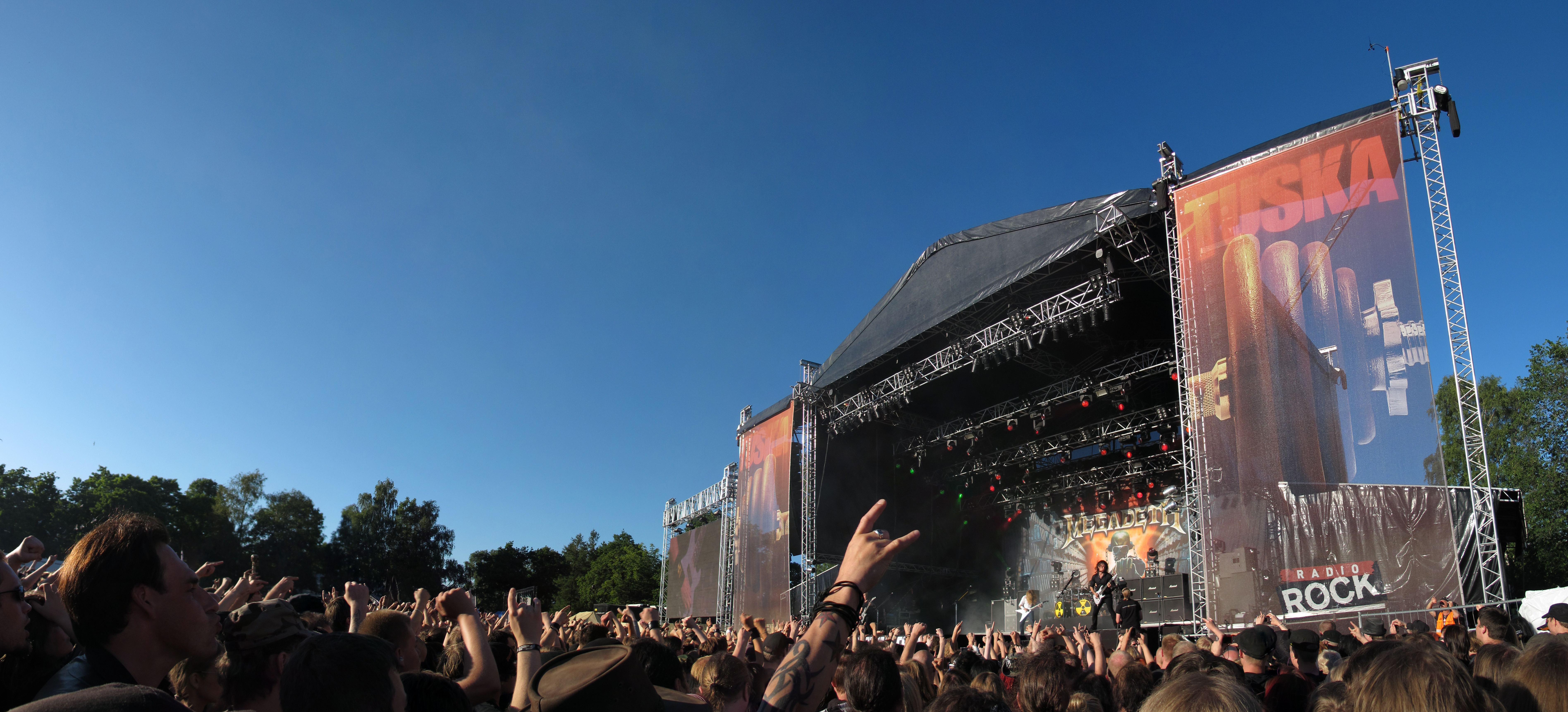 Megadeth playing at Tuska Open Air Metal Festival 2010 (Helsinki, Finland) as the main act on sunday.